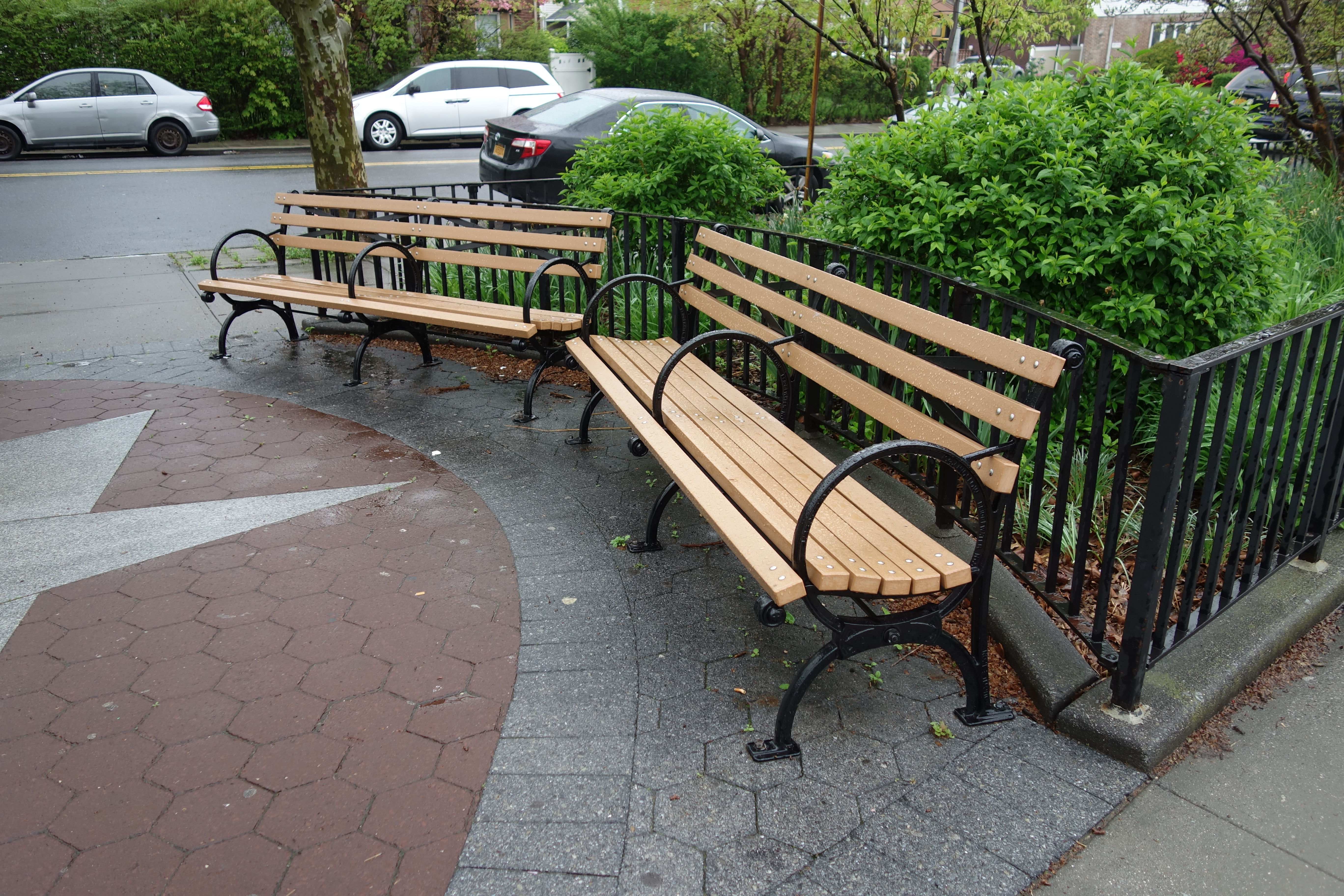 The Theodor Herzl Memorial memorial at the north end of Freedom Square Playground, at 75th Avenue / 73rd Terrace between Main Street and Vleigh Place in Kew Gardens Hills, Queens.